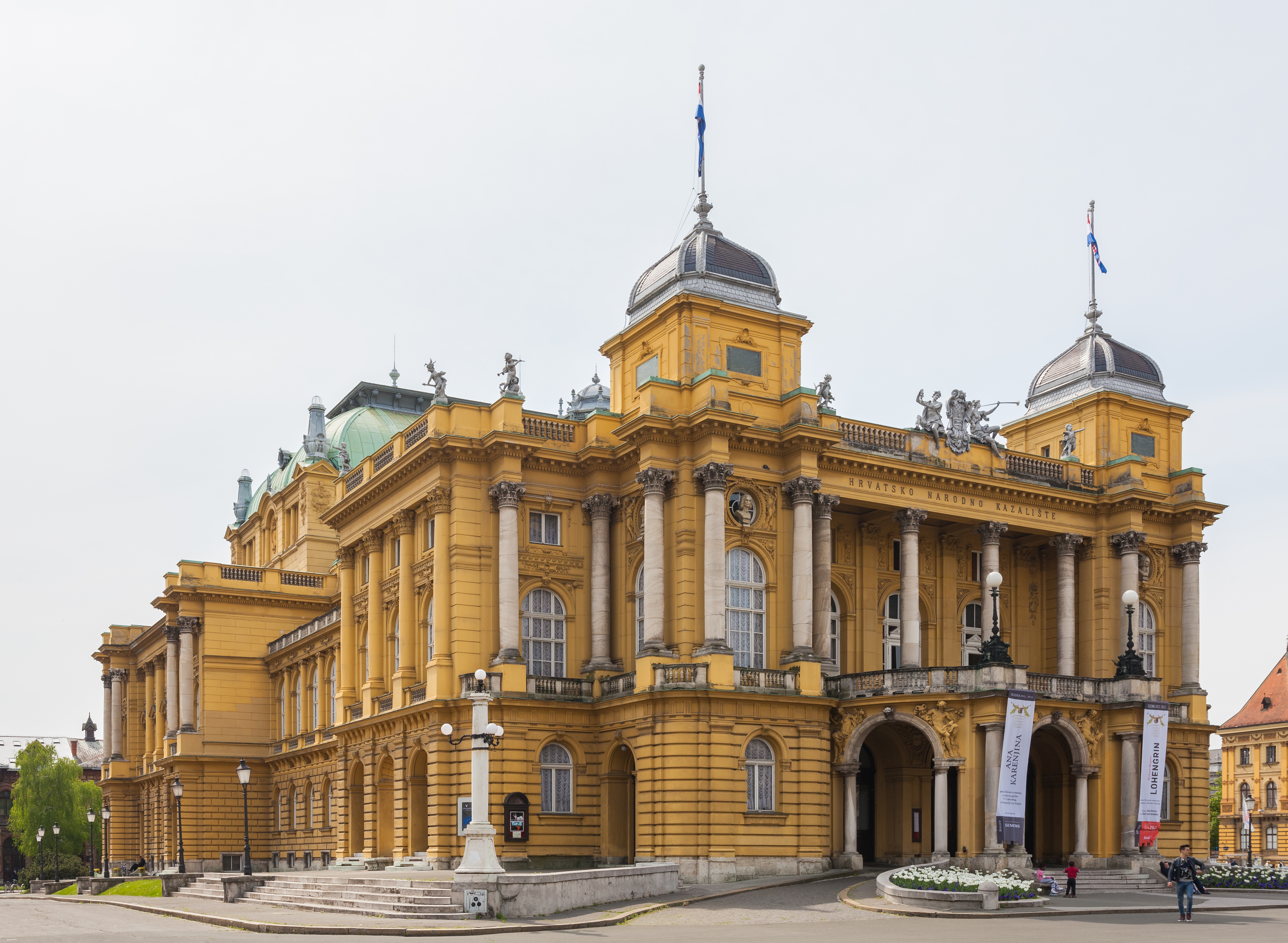 Croatian National Theater, Zagreb, Croatia